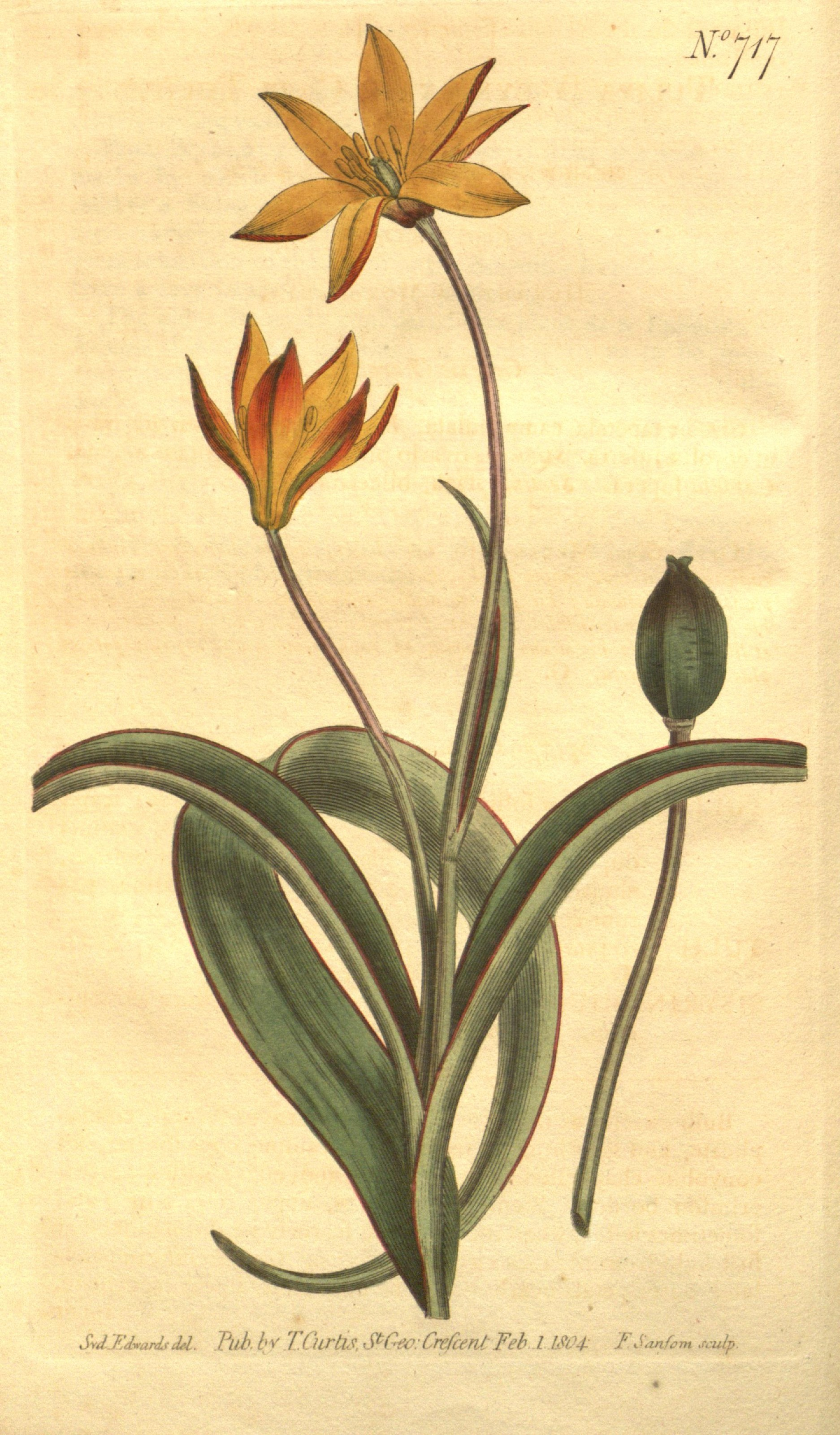 Illustration of Tulipa sylvestris subsp. australis, as Tulipa breyniana (Cape tulip) Is